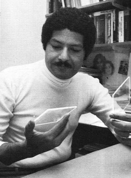 California Institute of Technology Professor Ahmed Zewail